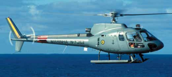 An UH-12 Esquilo (Eurocopter AS350) of the Brazilian Navy, in 2003.